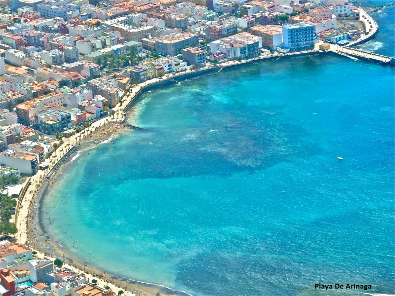 Playa de Arinaga vista aérea